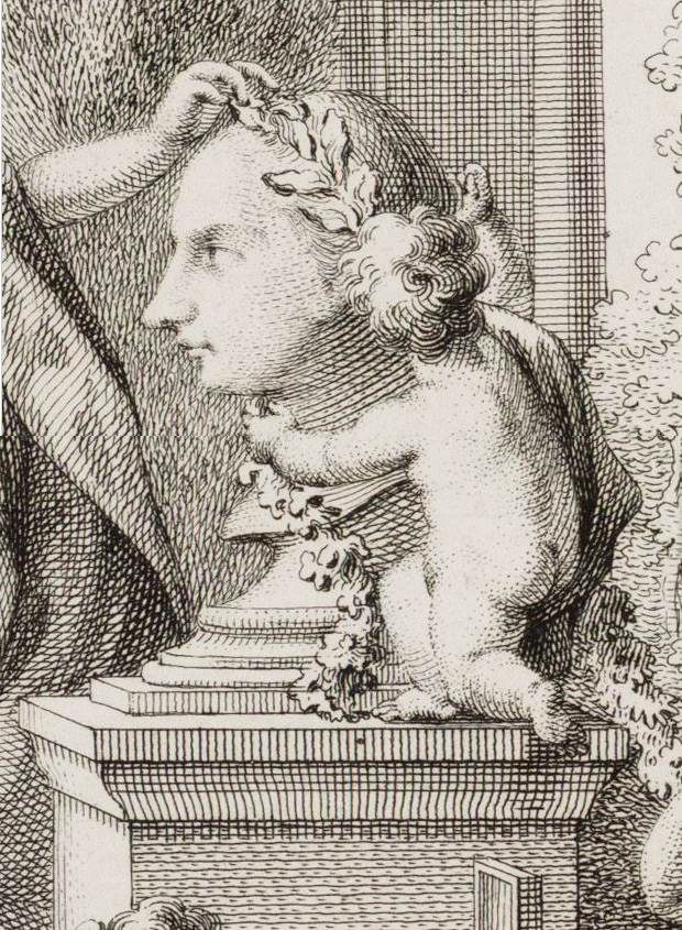 Detail of an allegorical portrait of the Amsterdam architect and director of the city art academy Jacob Otten Husly